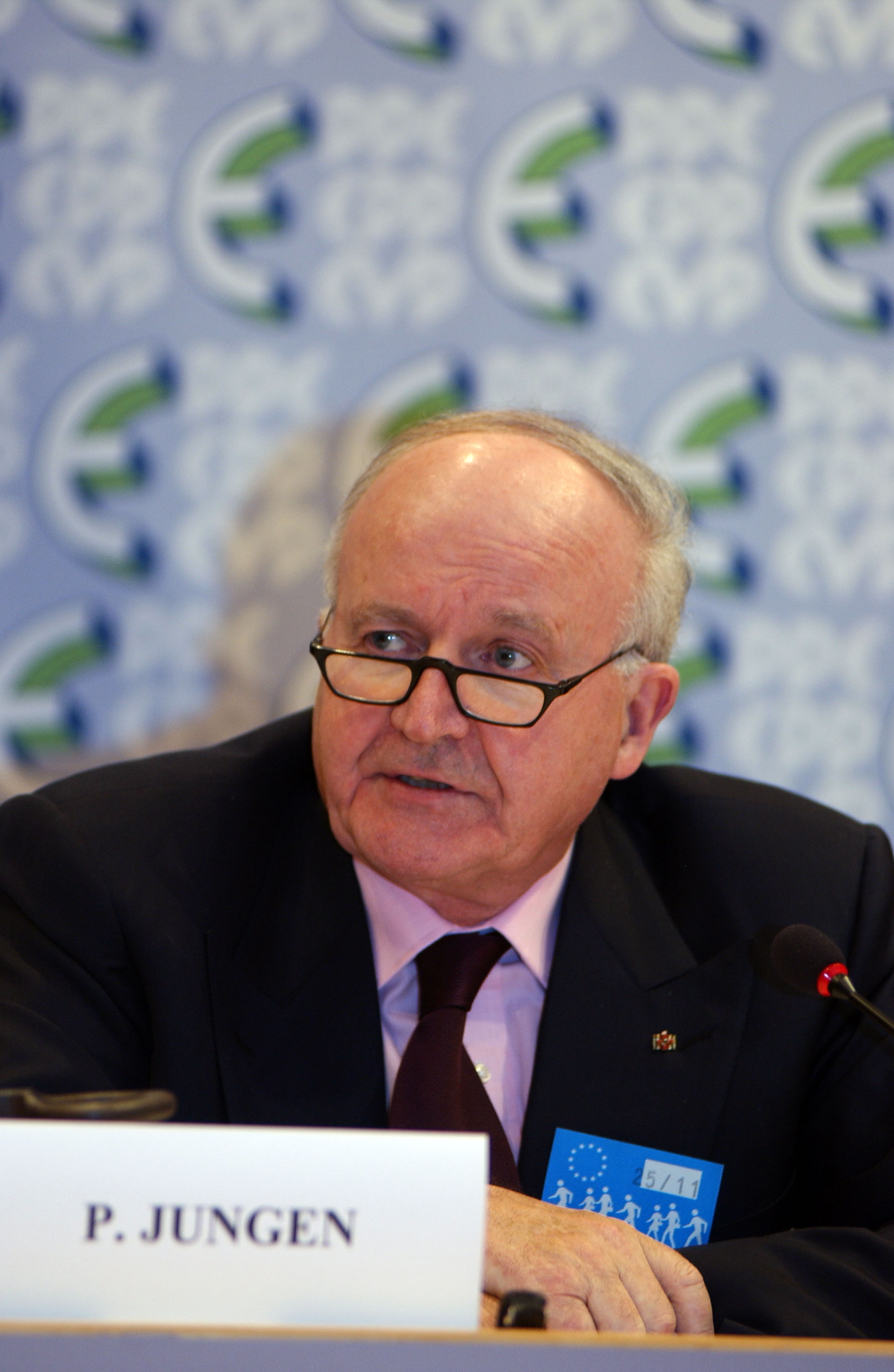 EPP Conference on Lisbon Strategy 25 November 2004